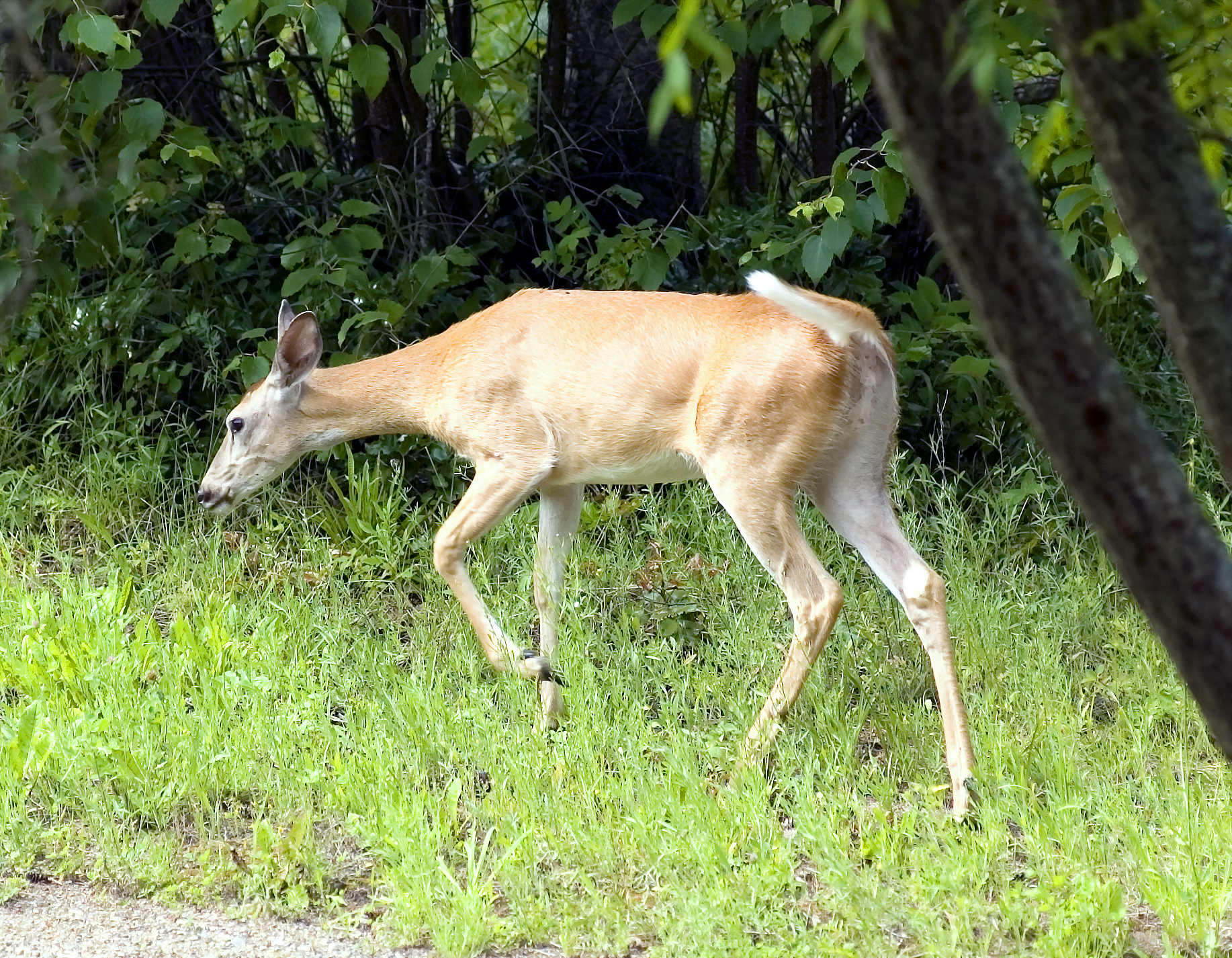 Deer photographed on my proberty in Enderby BC Canada.